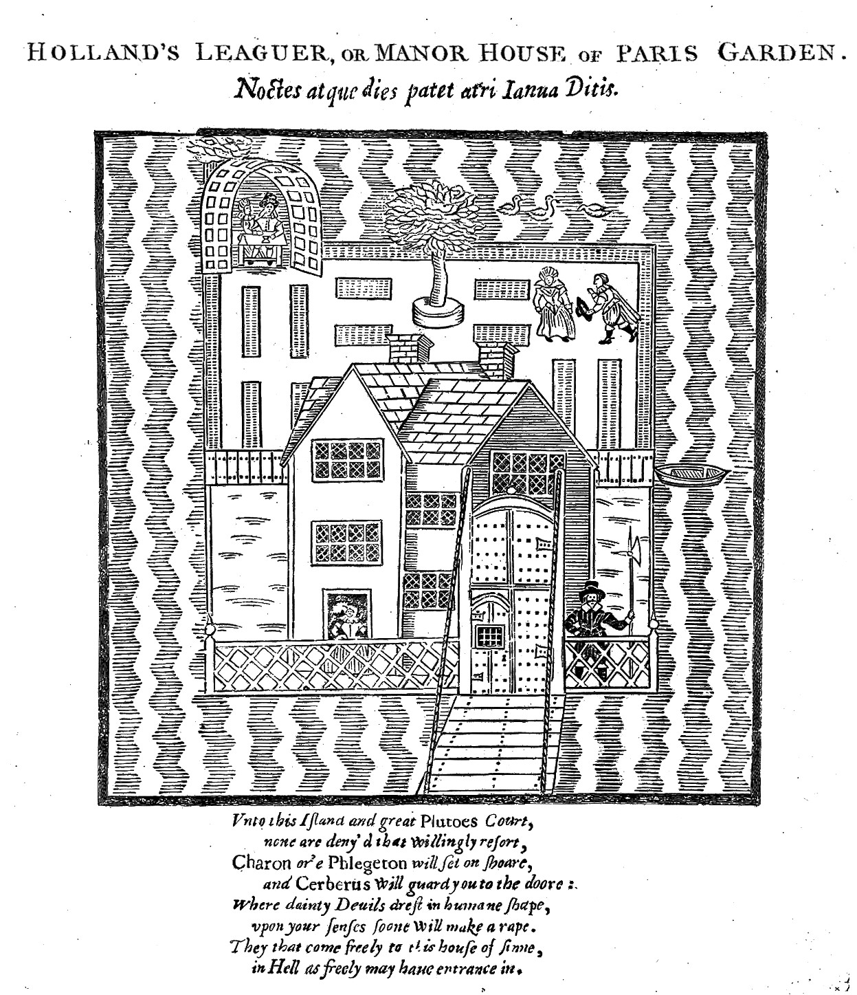 Holland's Leaguer or Manor House of Paris Garden. Rare Books Keywords: great britain; Topography; London